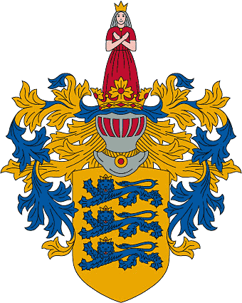 Greater coat of arms of Tallinn, Estonia